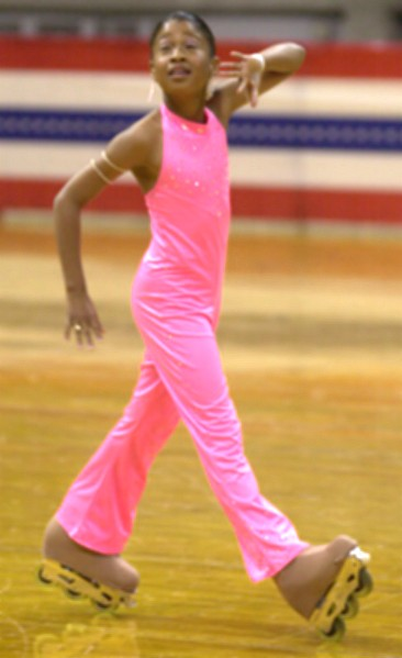 Artistic skating on the inline skates